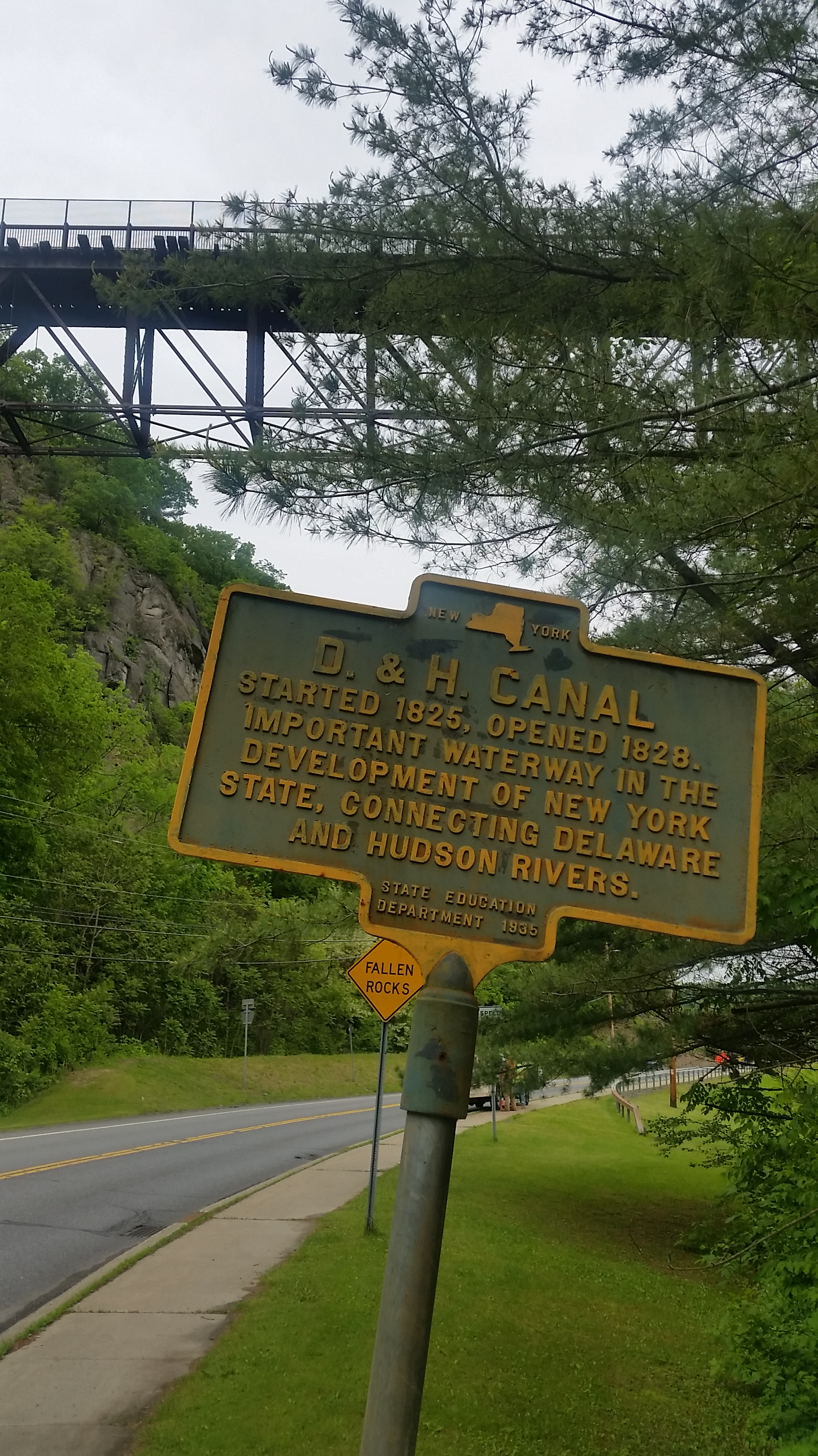 NY State historical marker for the D&H Canal in Rosendale, NY